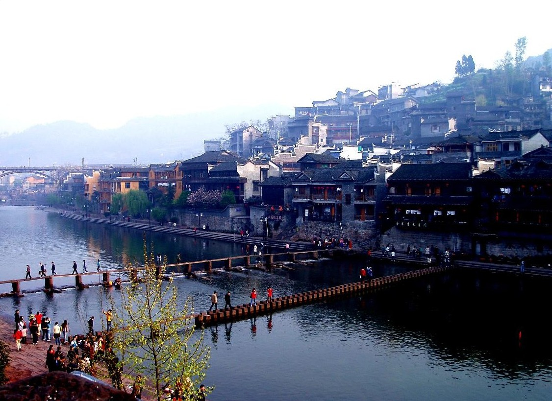 Beautiful Ancient Town – Fenghuang